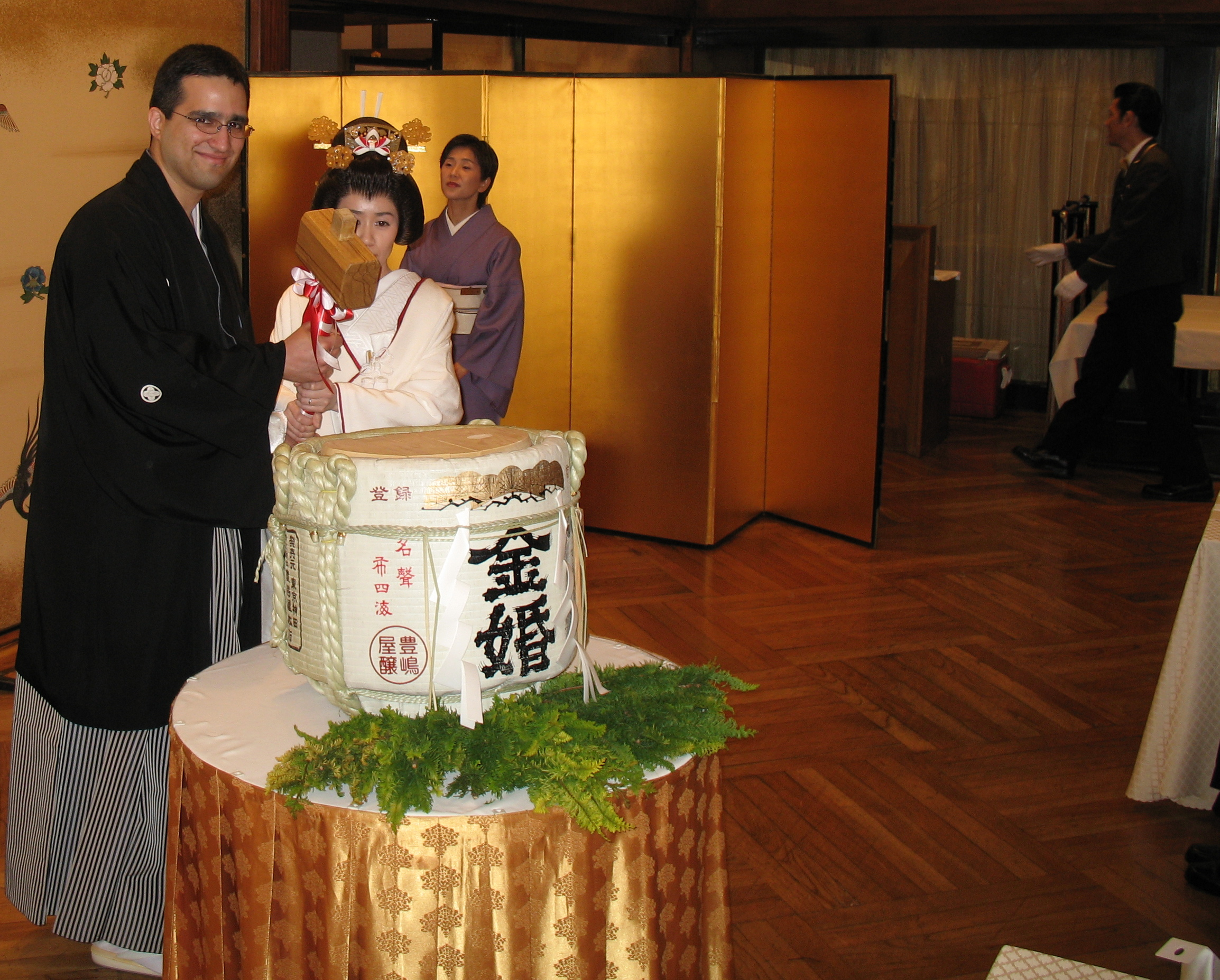 Apparently a tradition at Japanese weddings. The sake was de-li-cious.